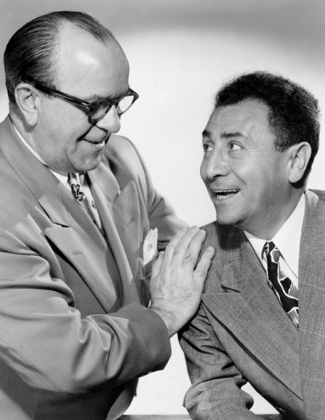 Photo of Cliff Hall (left) and Jack Pearl from the radio program The Baron and the Bee. Pearl played the Baron and Hall, his straight man, was the Bee.